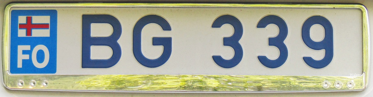 BG 339 Faroer license plate seen in FL.jpg